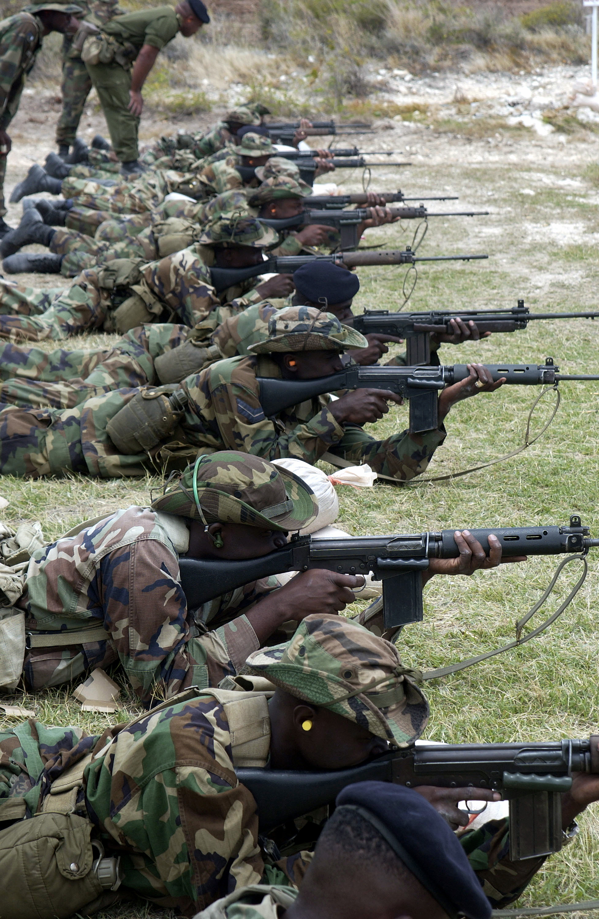 Soldiers from the Jamaica Defence Force (JDF), act as the opposing force (OPFOR) and fire their FN FAL 7.62 x 51mm NATO Belgium Automatic Rifles, during the Tradewinds 2002 Field Training Exercise (FTX), on the island of Antigua.